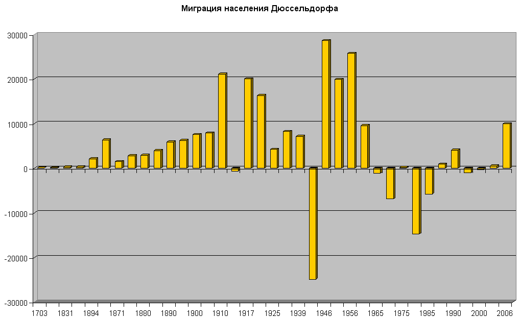 Diagram showing the changes of population in Duesseldorf. Russian language.